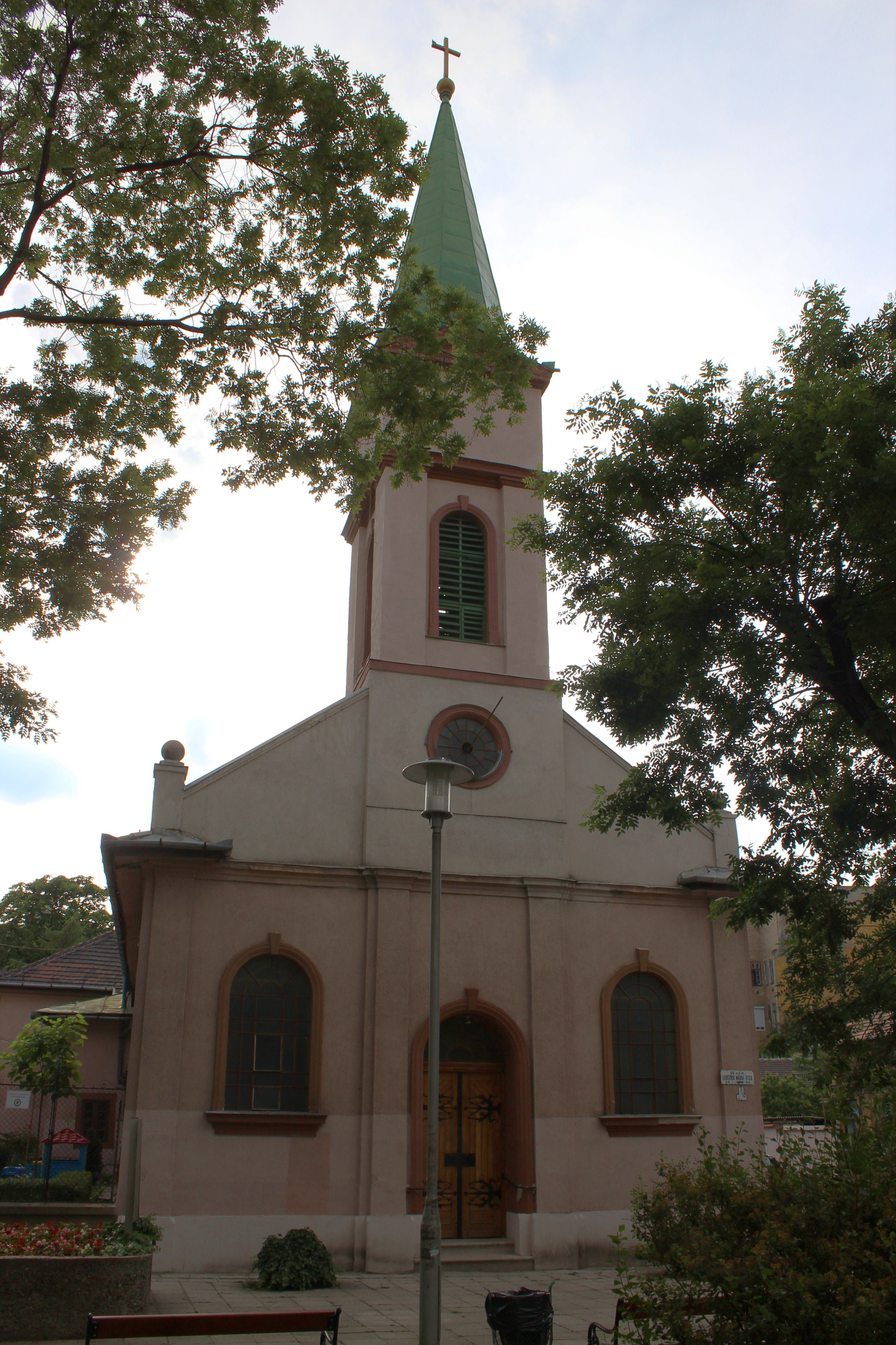 Lutheran church in Újpest